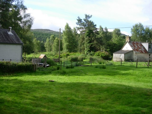 Cannich The village of Cannich is dispersed across the valley floor and along the A831.